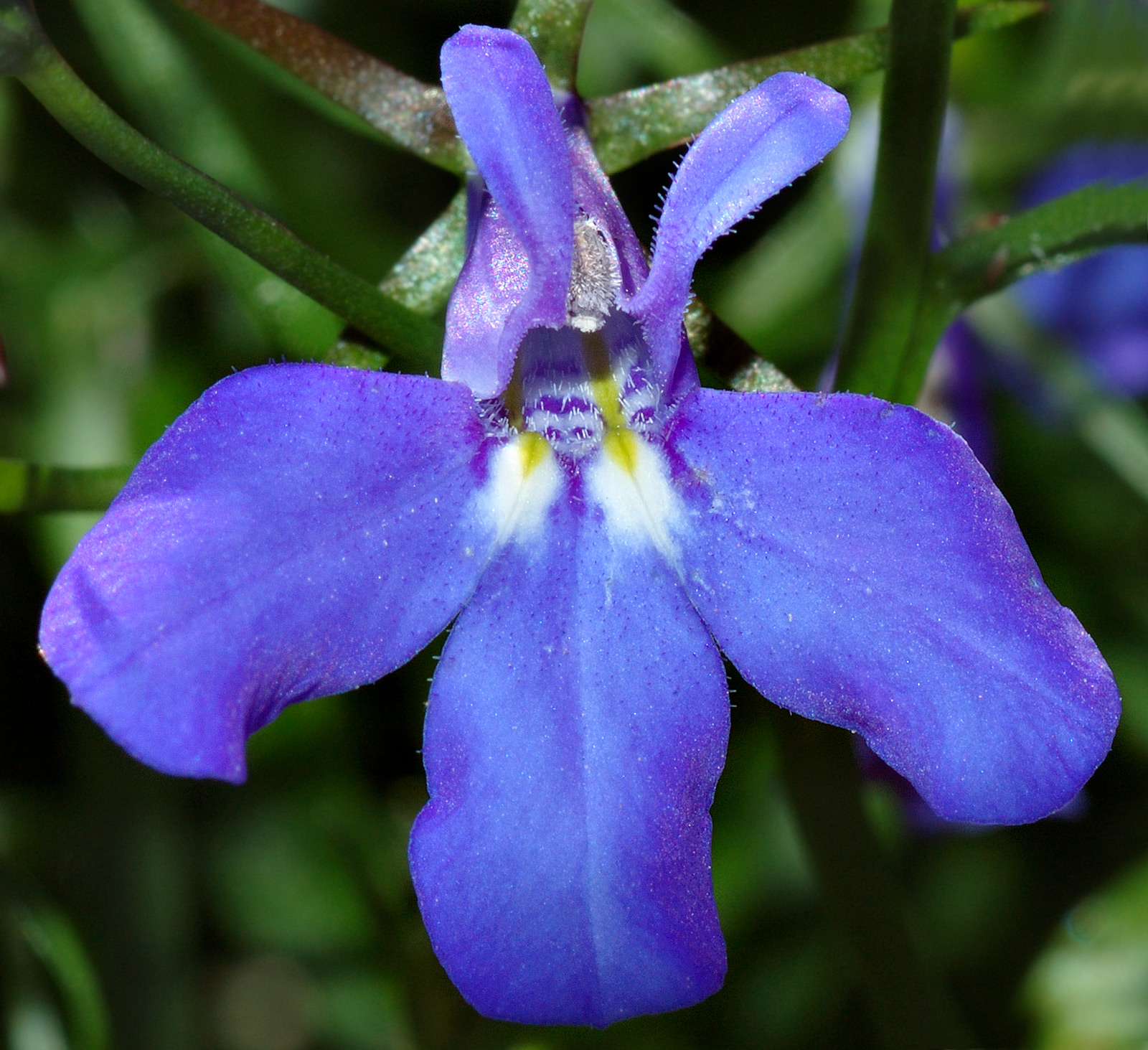 This image shows a Lobelia close-up.